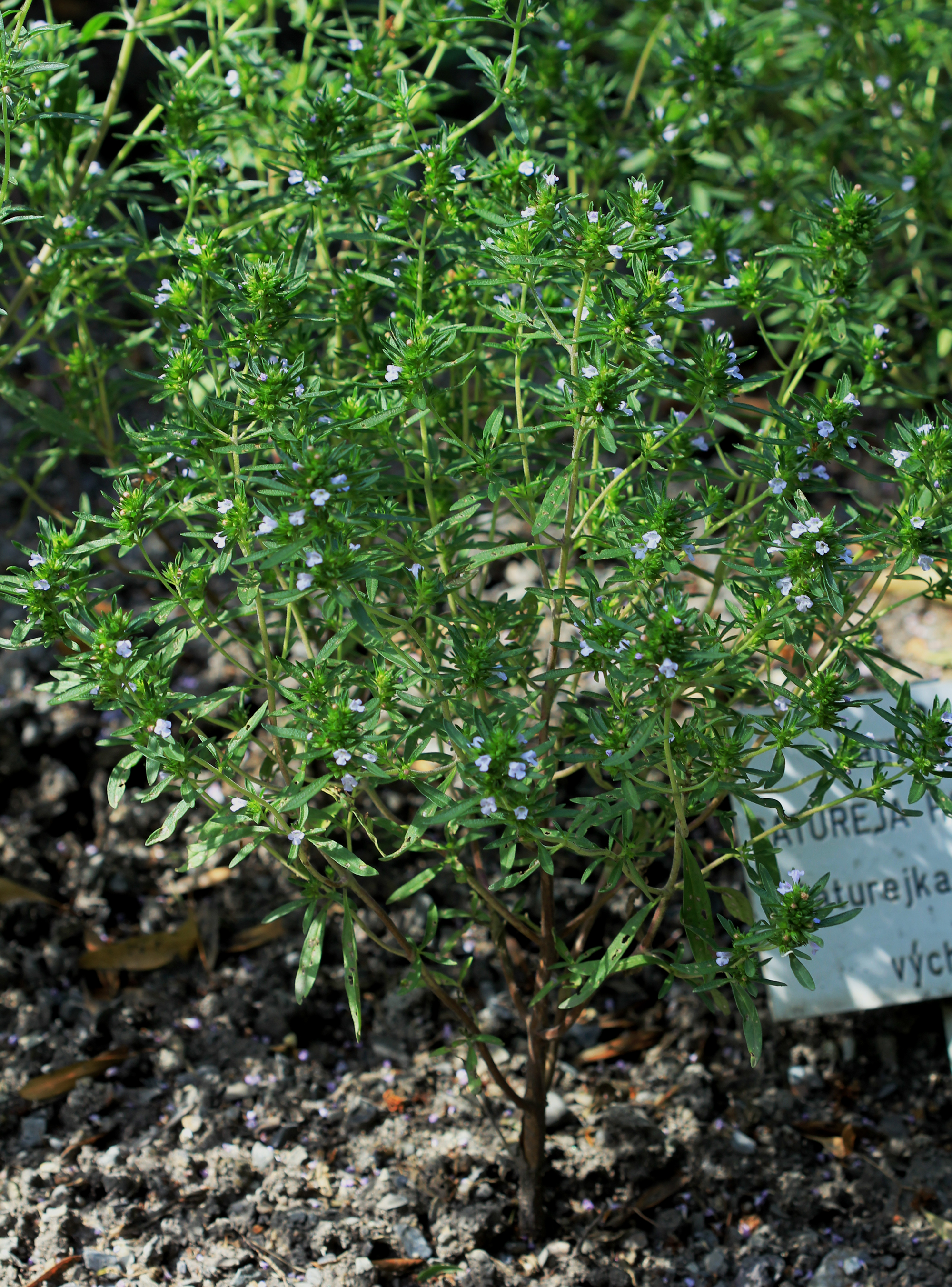 Plant Summer savory, (Satureja hortensis) from the Botanical Gardens of Charles University, Prague, Czech Republic